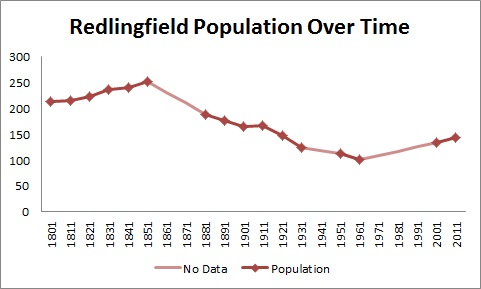 Total Population of Redlingfield Civil Parish,Suffolk, as reported by the Census of Population from 1881 to 2011